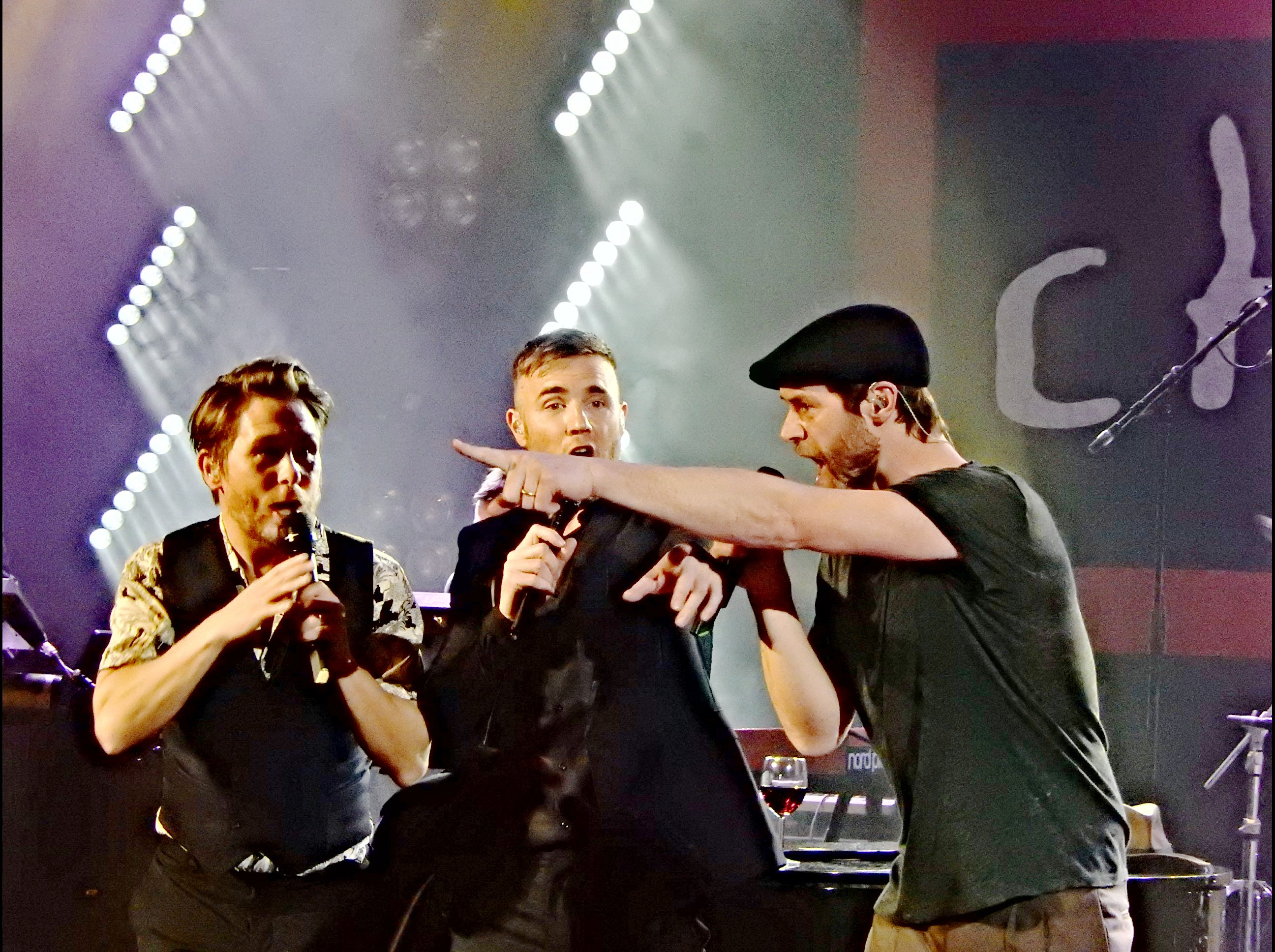 Take That, Shepherds Bush Empire, London